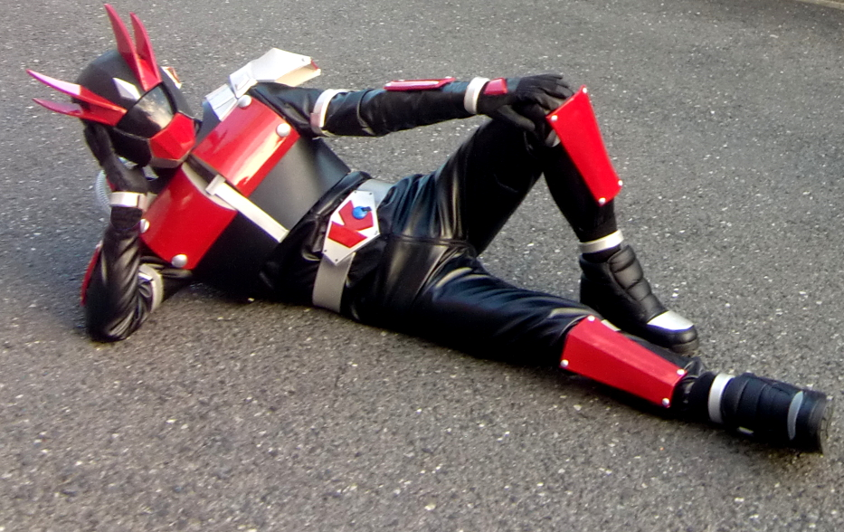 He is KitaQman, a hero of Kitakyushu city.